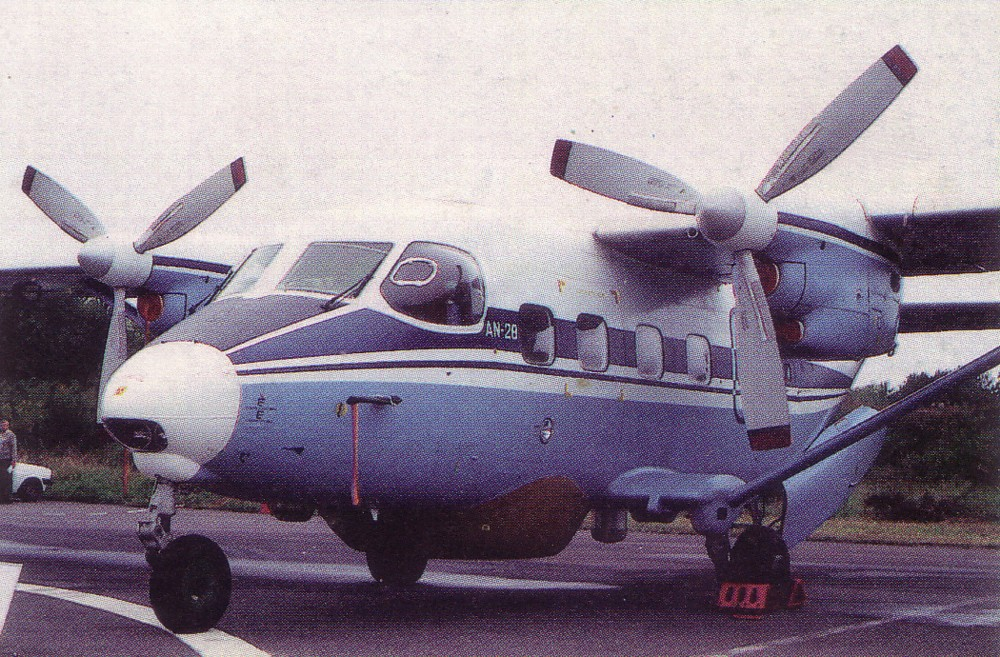 An-28 Bryza B-1R